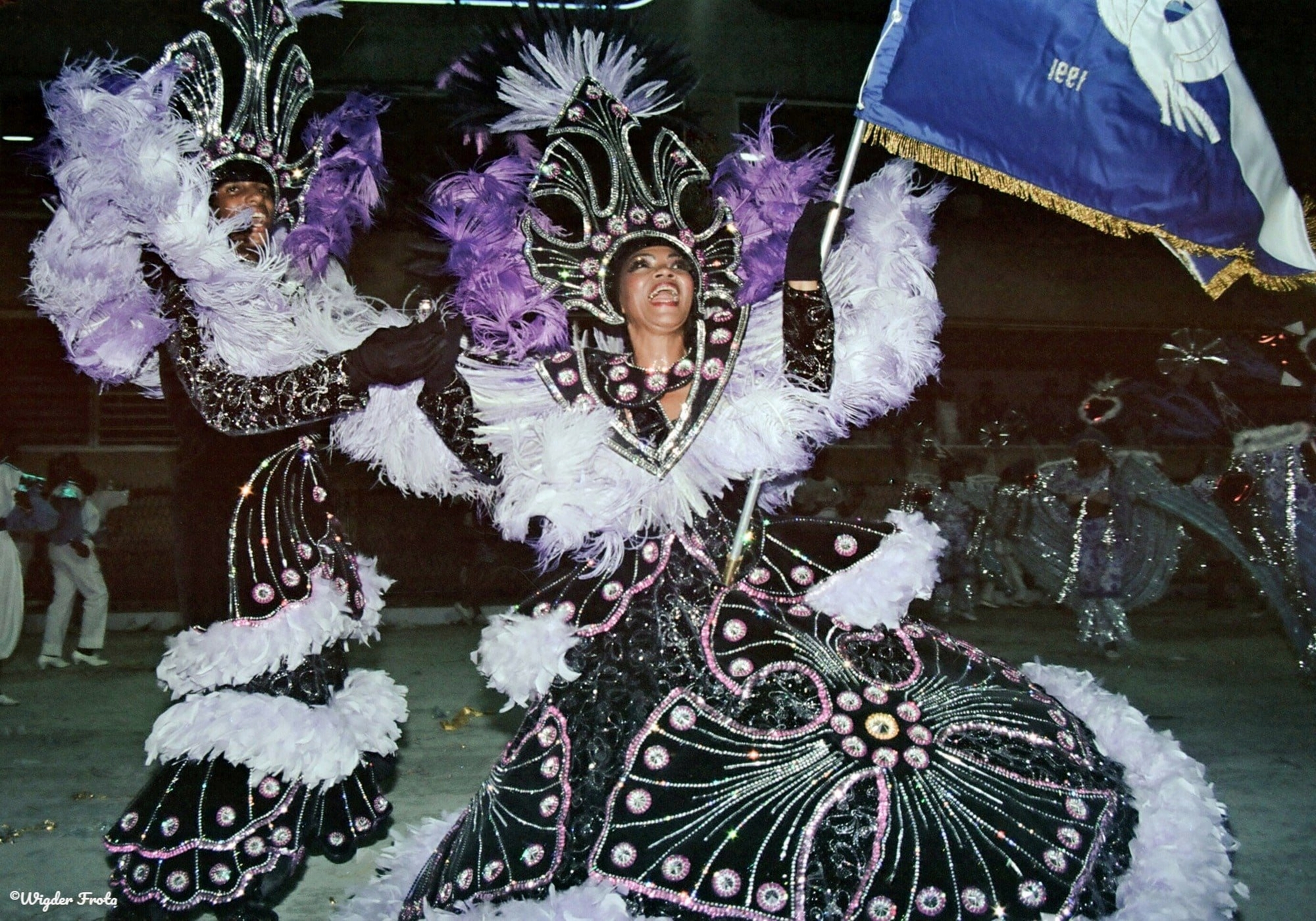 From the Series "Samba Schools, Rio de Janeiro" Carnival 1991 Photo: Wigder Frota